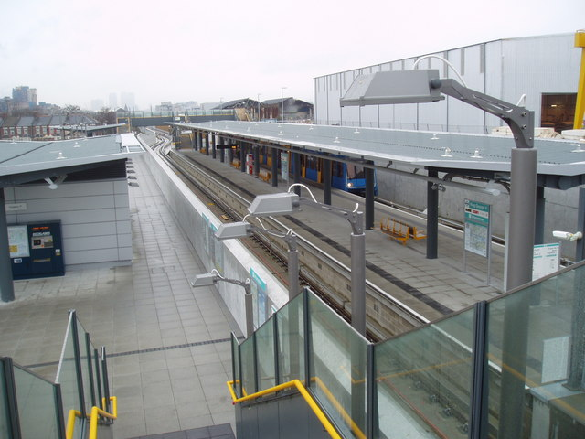 King George V station, Docklands Light Railay, London. In December 2005, the Docklands Light Railway was extended to this new station in North Woolwich. In 2007, further extension took the DLR under the Thames to Woolwich Arsenal station where there is an interchange with the main line.